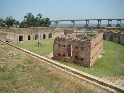 Fort Pike Citadel - July 2009